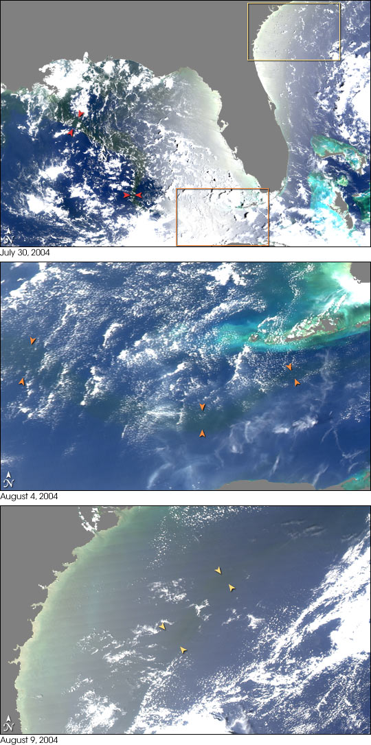 Freshwater flowing off the land surface into the ocean is rich in nutrients and organic matter that influence the biology of the ocean—everything from seagrasses, to coral reefs, to single-celled ocean plants called phytoplankton. In terms of freshwater flow, the Mississippi River is the United States’ major contributor, draining over 40 percent of the U.S. land surface and ranking 8th in the world in terms of volume of water discharged to the ocean. But what happens to the water when it enters the Gulf of Mexico? In the summer months, a large portion of the Mississippi River outflow heads southeast into the Gulf of Mexico. In summer 2004, scientists combined satellite images of the Gulf of Mexico and the Atlantic Ocean with ship-based measurements of salt content and water chemistry to track the spread of a large plume of Mississippi River freshwater into the Gulf of Mexico and beyond. The Moderate Resolution Imaging Spectroradiometer (MODIS) images shown here follow the freshwater plume in late July and early August. The freshwater from the Mississippi appears as a dark ribbon against the lighter-blue surrounding waters. The images demonstrate that the plume did not mix with the surrounding sea water immediately. Instead, it stayed intact as it flowed through the Gulf of Mexico, into the Straits of Florida, and entered the Gulf Stream. The Mississippi River water rounded the tip of Florida and traveled up the Southeast coast to the latitude of Georgia before finally mixing in so thoroughly with the ocean that it could no longer be detected by MODIS. The images were captured by the MODIS on NASA’s Aqua satellite on (top to bottom) July 30, August 4, and August 9.